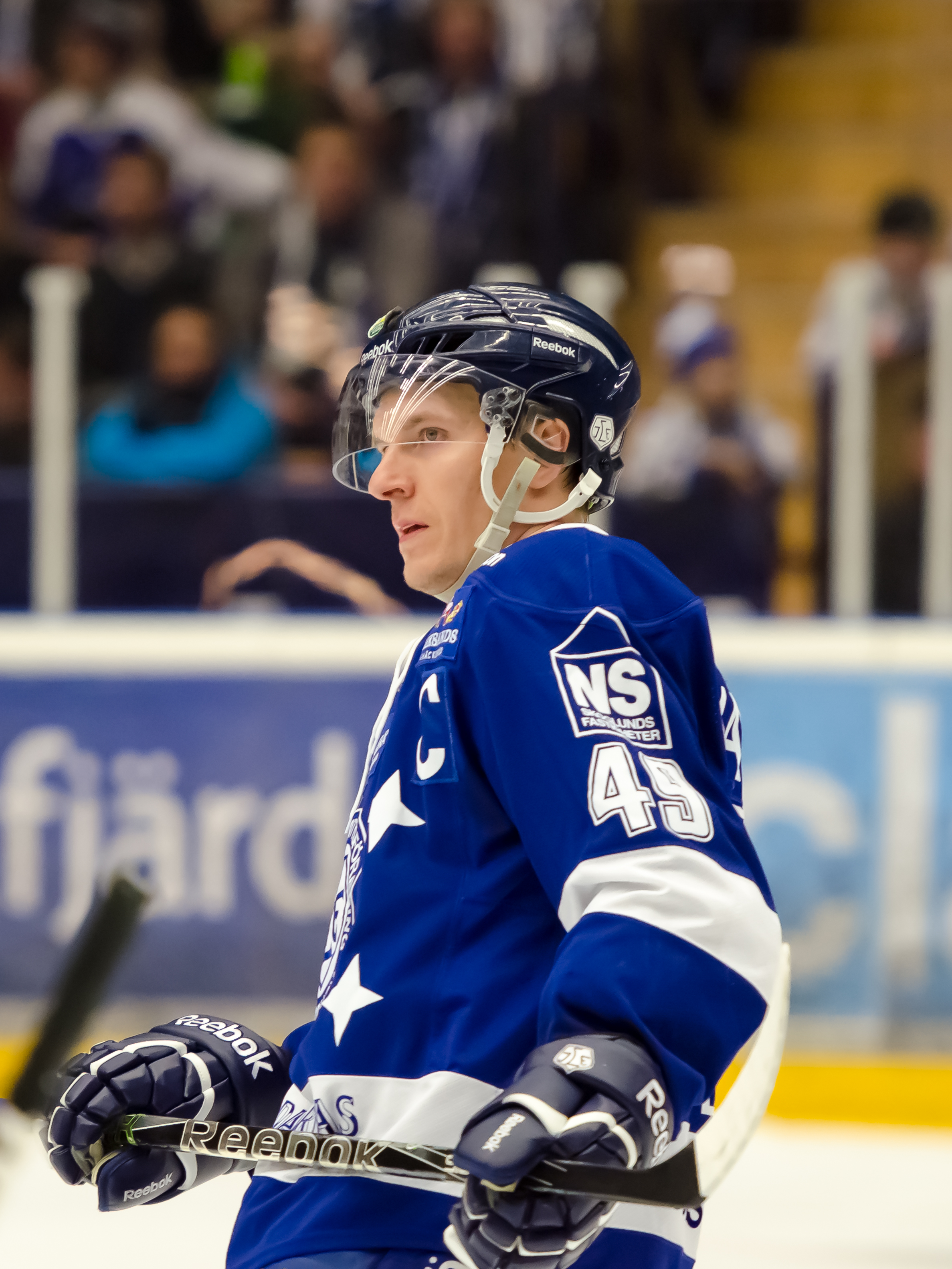 Gabriel Karlsson playing for Leksands IF in Hockeyallsvenskan (Swedish second league) against Mora IK 2012-12-29.